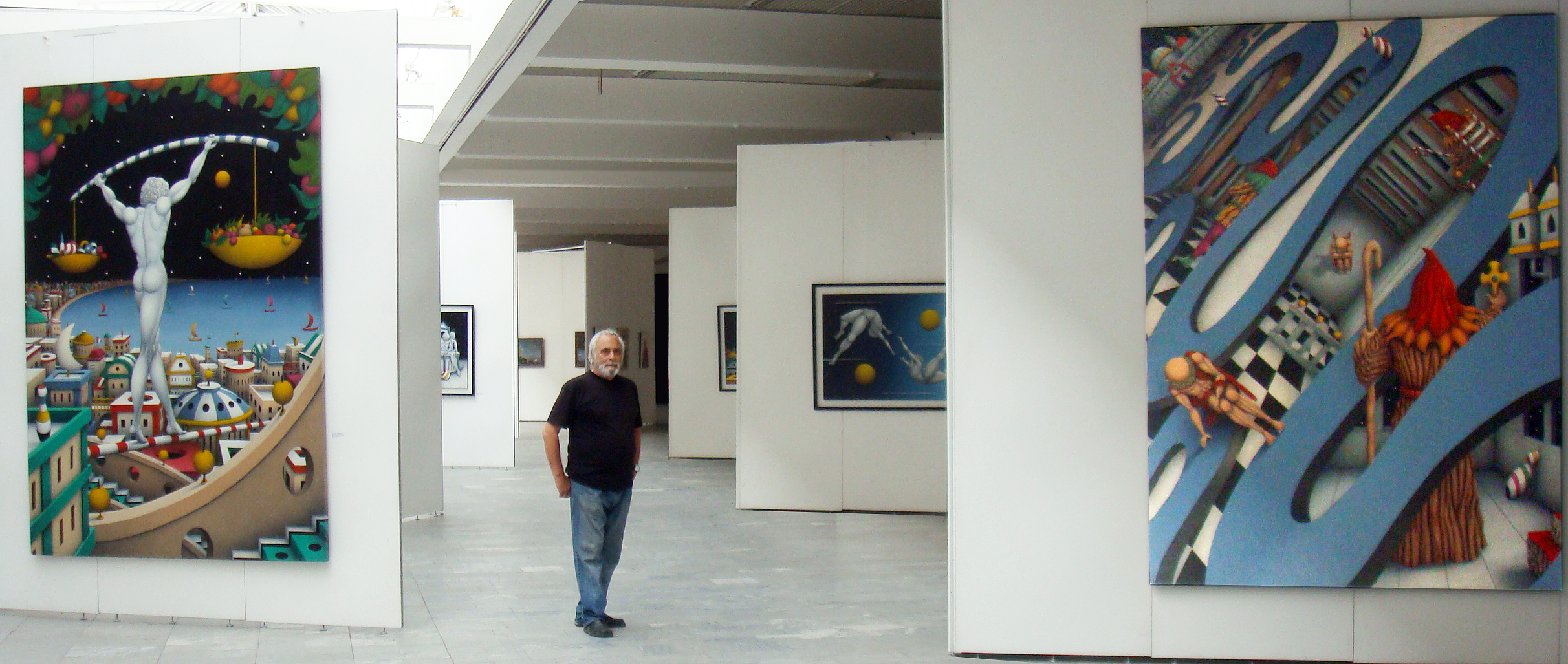 Photo of Pier Augusto Breccia in Saint Petersburg at the Manege Museum in 2011